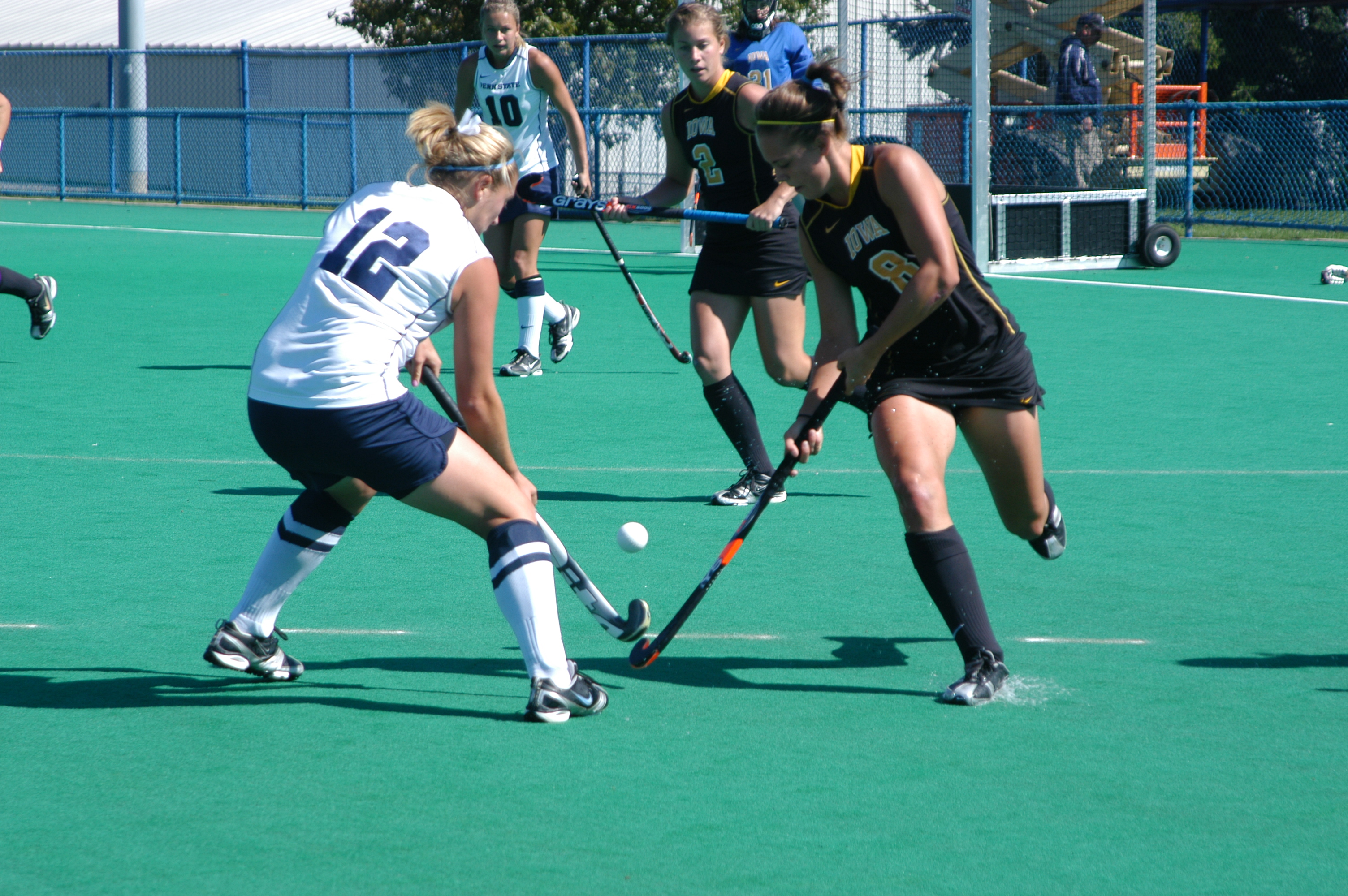 The Iowa Hawkeyes vs. the Penn State Nittany Lions during a Big Ten field hockey game in University Park, Pennsylvania.